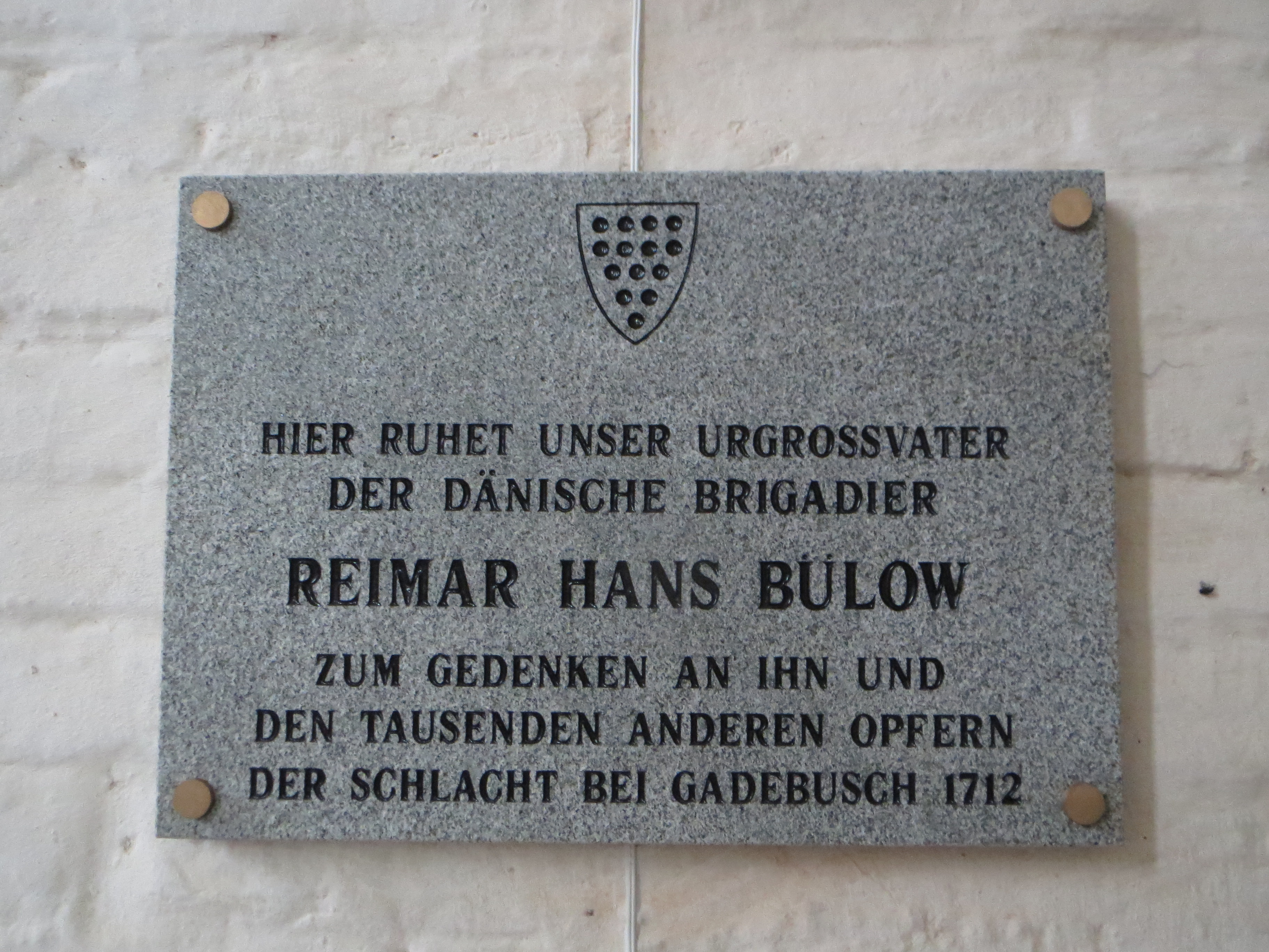 Interior of church in Gadebusch